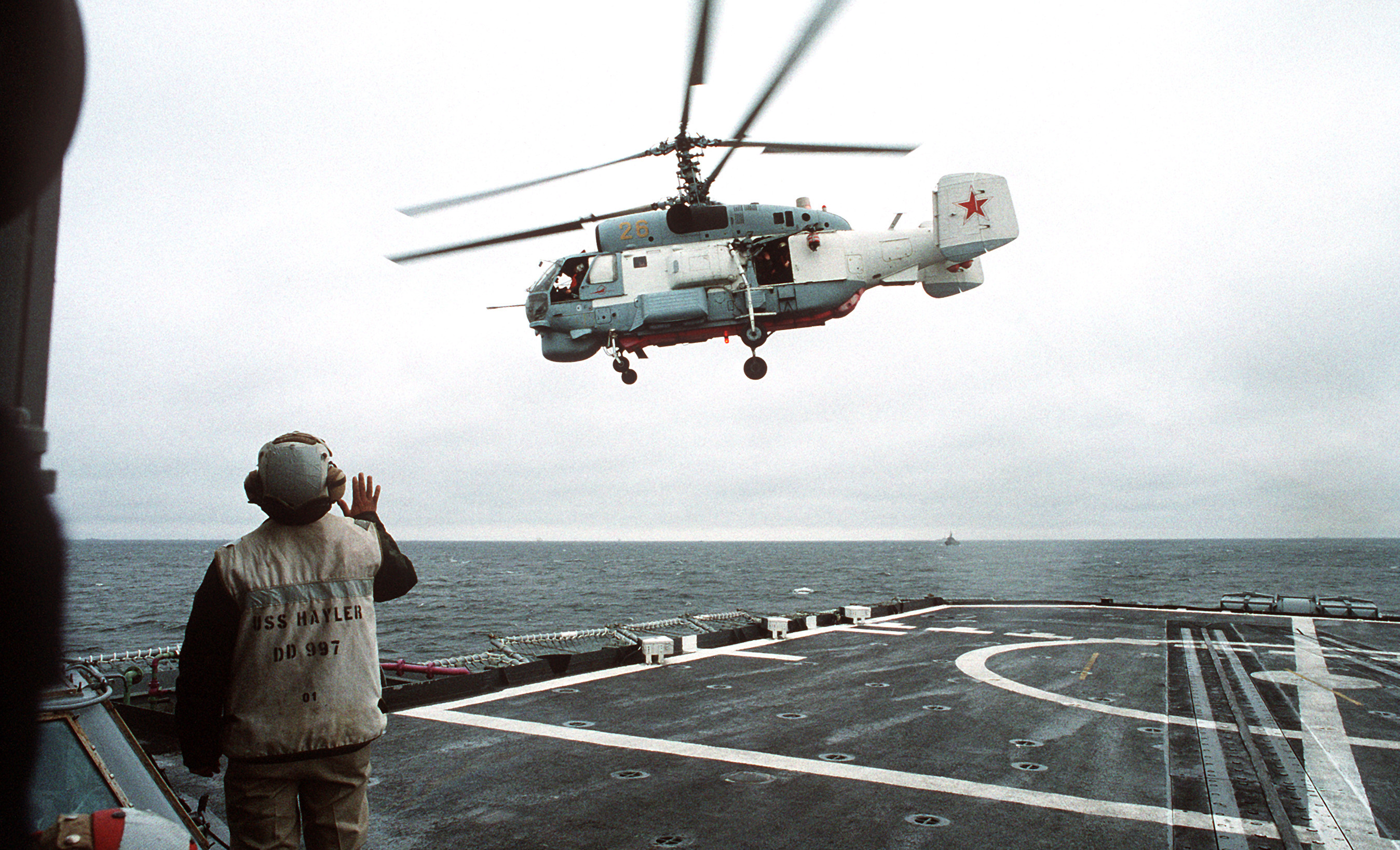 A Russian Ka-27PS Helix-D helicopter from the Russian guided missile frigate NEUSTRASHIMYY (FFG-712) becomes the first Russian aircraft to land on board the destroyer USS HAYLER (DD-997) during Phase 1 of the exercise Baltic Operation '94. The HAYLER is serving as flagship for BALTOPS 94.